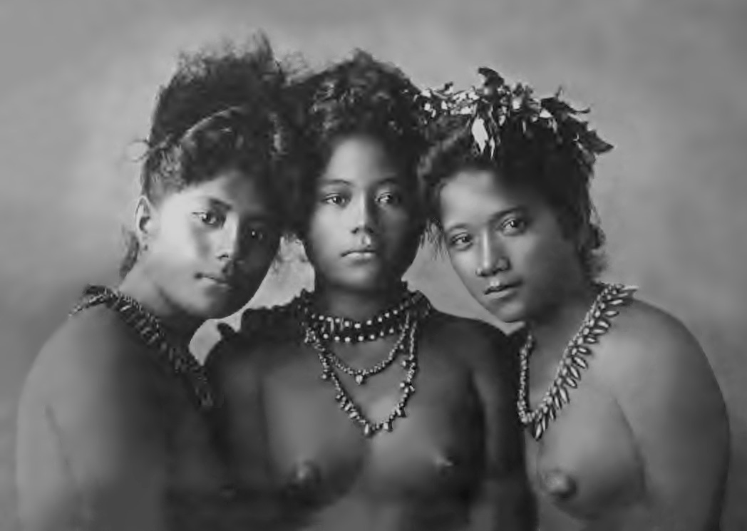 3 Samoan girls 1902 I downloaded image from Internet Archive org website [1] where it is stated that the book is NOT IN COPYRIGHT. I cropped it & uploaded to wikimedia commons. This image is from a book published 1902, so out of copyright. image from a 1902 book - no higher res available